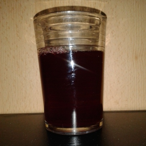 A glass of cranberry juice. Actually a mix of mainly (cheaper) apple juice and a few cranberries.